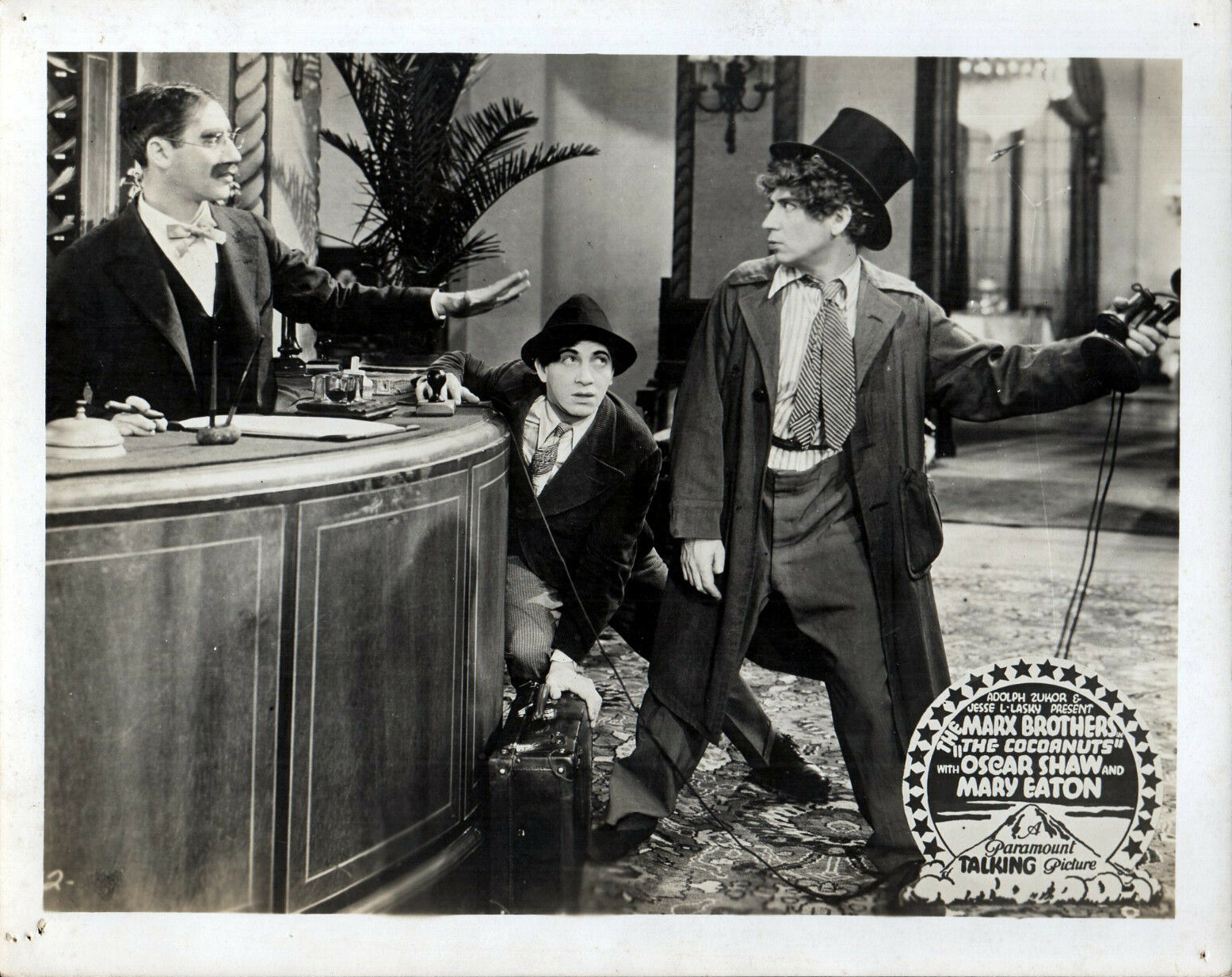 Lobby card